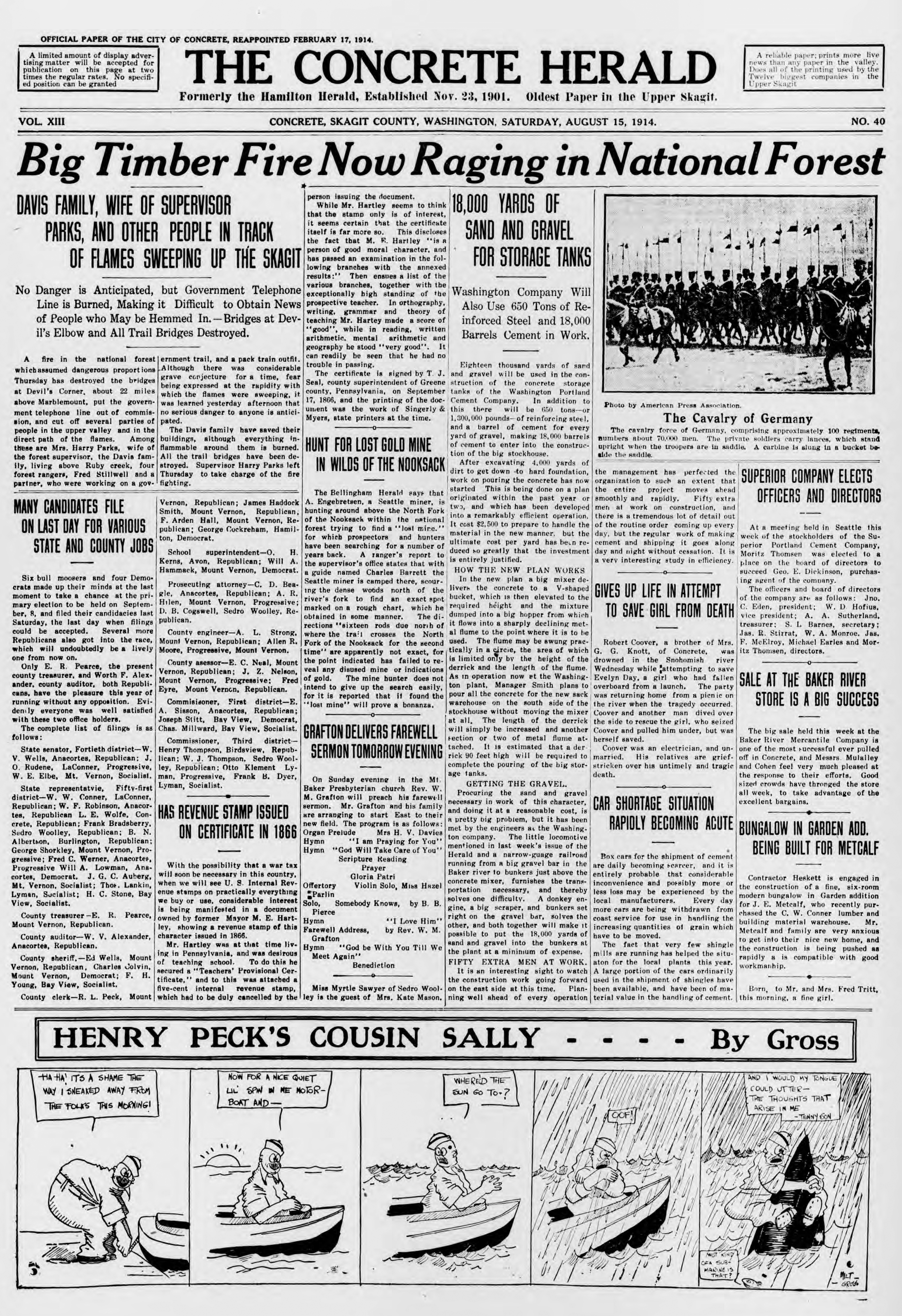 First page of Concrete Herald issue of August 15, 1914